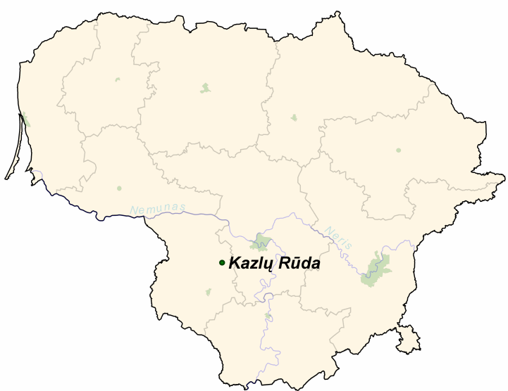 Kazlų Rūda on the map of Lithuania